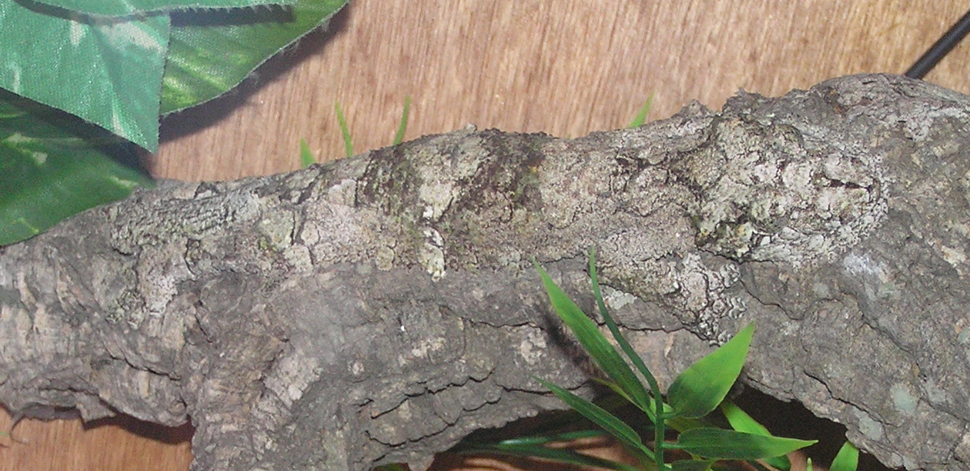 A pre-adult specimen of gecko Uroplatus sameiti is cryptic, with camouflage methods including mimicking the underlying branch surface, colour matching, disruptive coloration, body flattening and fringing to conceal the shadow, and keeping still.